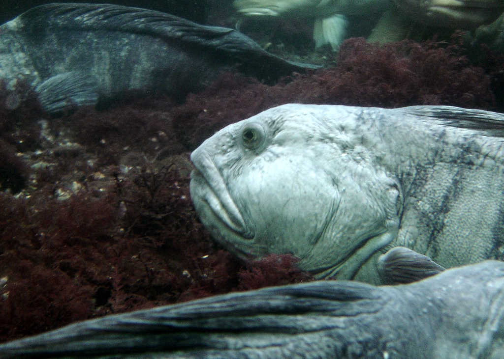 Anarhichas lupus